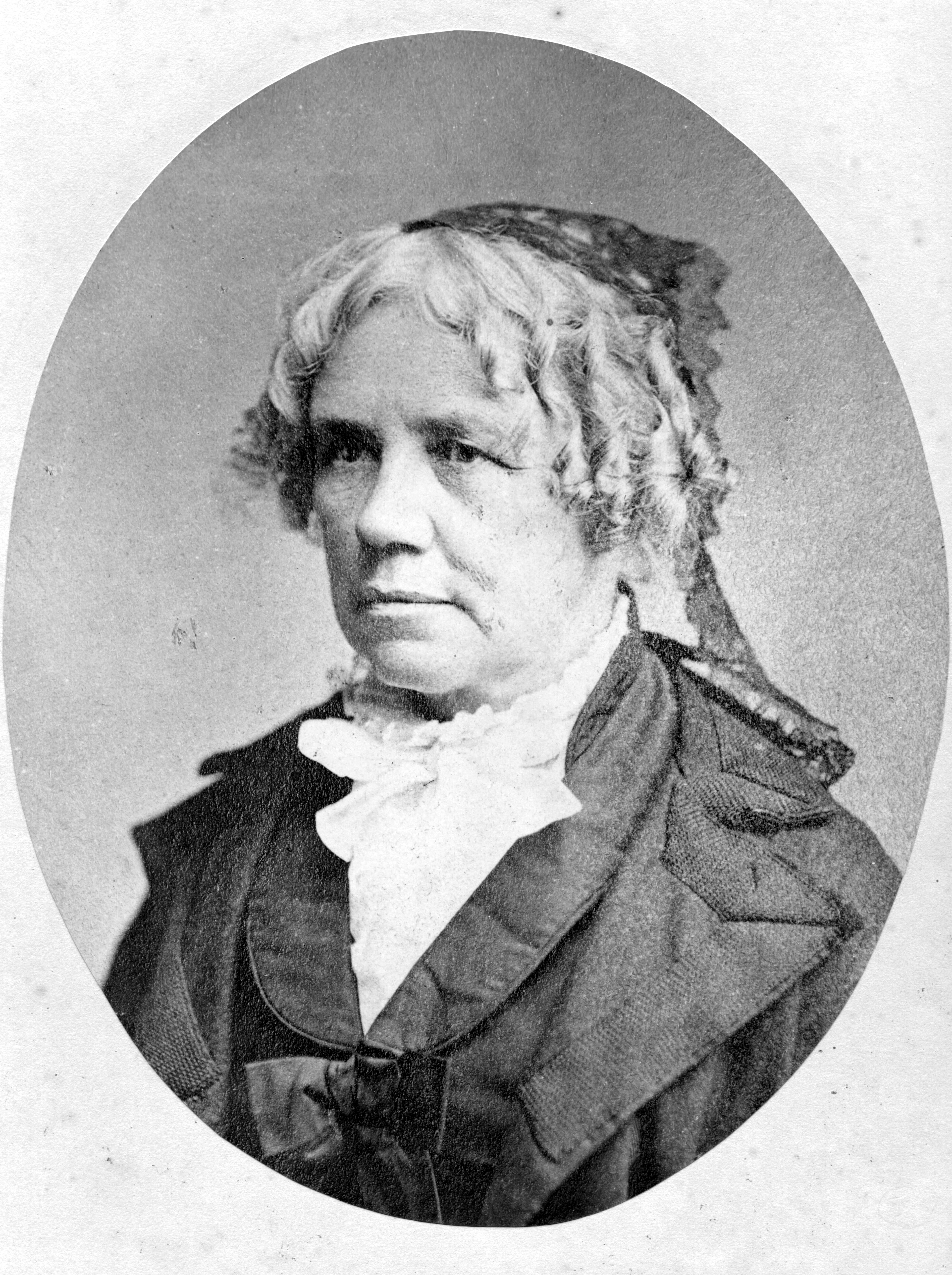 Maria Mitchell born in 1818, died 1889. She discovered a comet in 1847, and was the first professor of astronomy at Vassar College beginning in 1865.